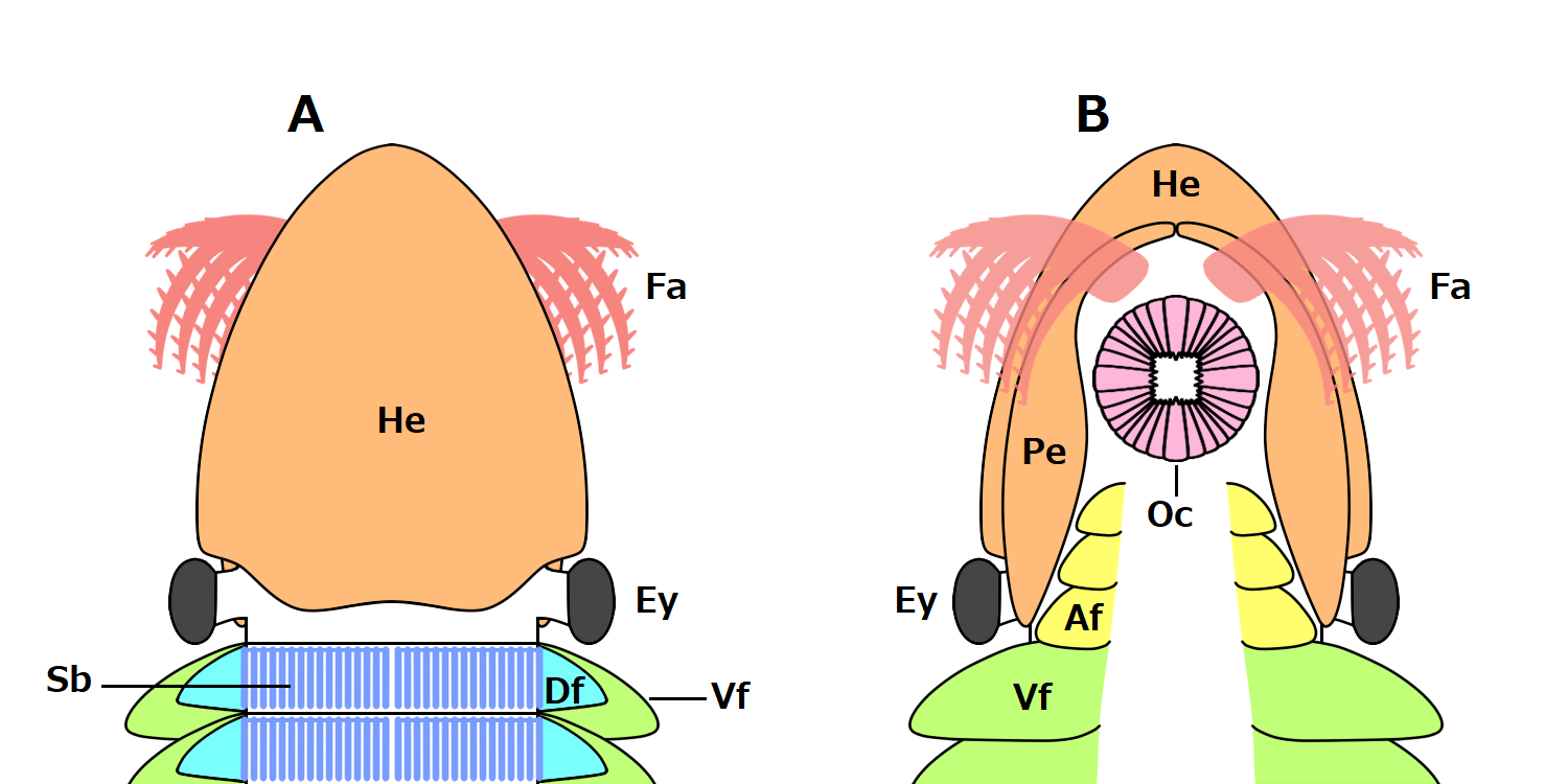 Anterior morphology of a generalized hurdiid radiodont (dinocaridid、stem-group arthropod). A: 背面 Dorsal view B: 腹面 Ventral view Fa: 前部付属肢 Frontal appendage He: 頭部背面の甲皮 H-element of head carapace complex Pe: 頭部側面の甲皮 P-element of head carapace complex Ey: 眼 Eye Oc: 口と歯 Oral cone Af: 首のヒレ Anterior flap Vf: 胴部の腹側のヒレ Ventral flap Df: 胴部の背側のヒレ Dorsal flap Sb: 鰓らしき構造体 Setal blade References 参考文献: The oral cone of Anomalocaris is not a classic ‘‘peytoia’’ (April 2012) Oral cone. Anomalocaridid trunk limb homology revealed by a giant filter-feeder with paired flaps (March 2015) Setal blades. A new hurdiid radiodont from the Burgess Shale evinces the exploitation of Cambrian infaunal food sources (July 2019) H-element and P-elements.